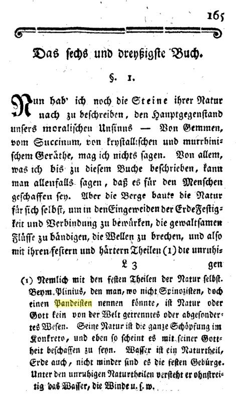 Page showing earliest recorded formal description of Pandeism.